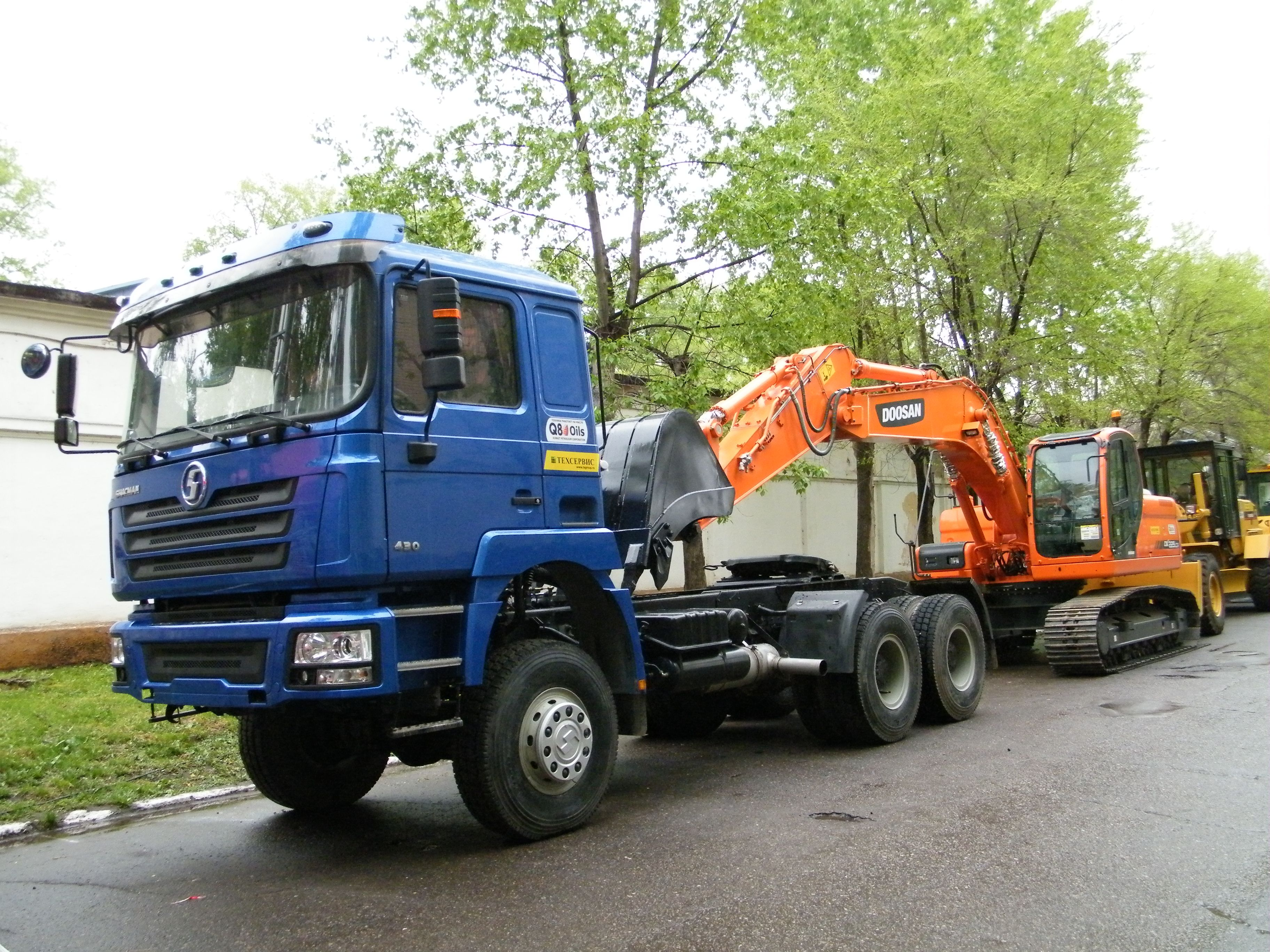 Shacman (Shaanxi) трёхосный седельный тягач повышенной проходимости